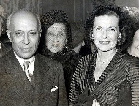 Jawaharlal Nehru and Edwina Mountbatten